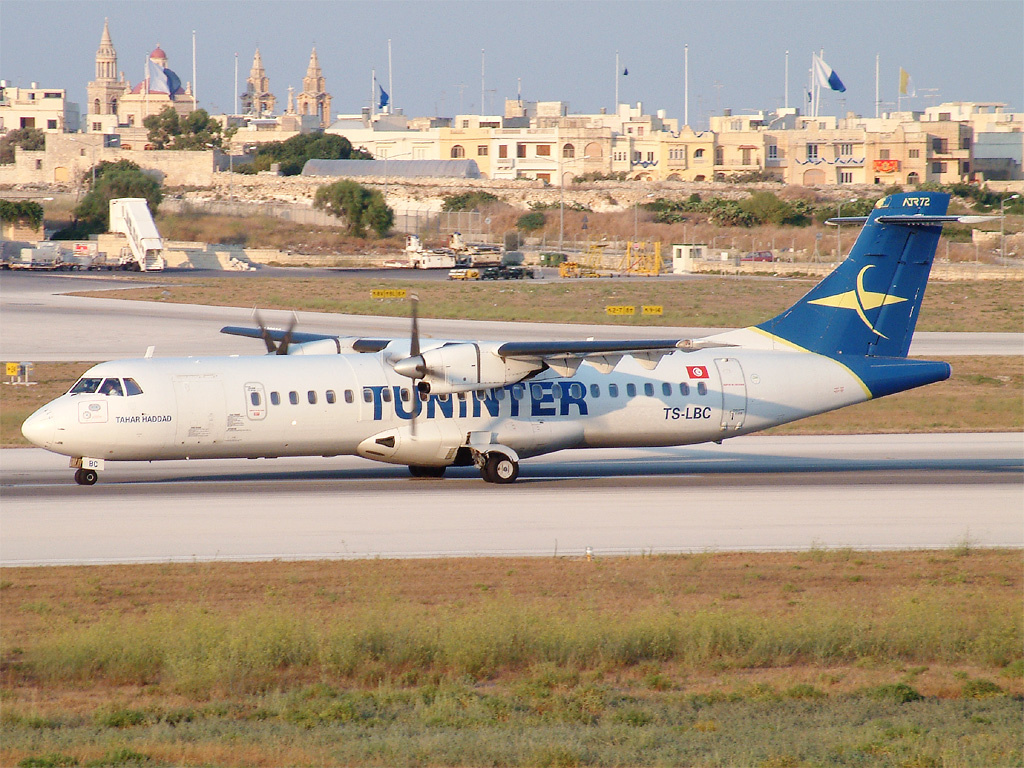 Tuninter ATR 72-202 (TS-LBC, "Tahar Haddad") taken at Malta-Luqa International Airport